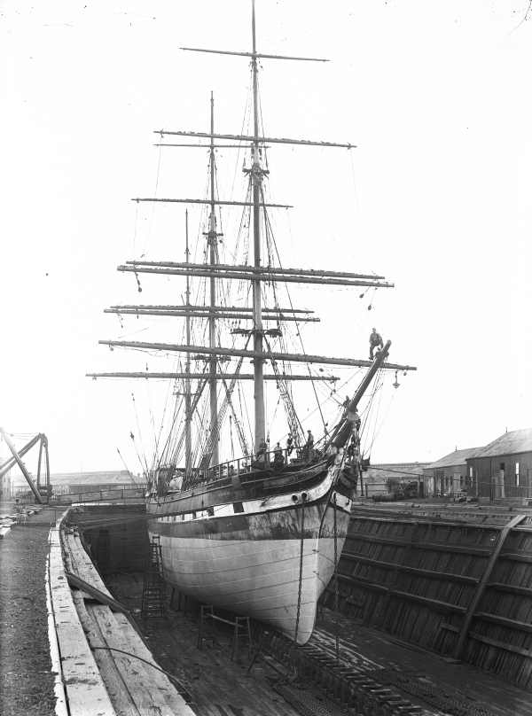 Creator unknown. Black and white photograph of Loch Ryan in dry dock. Item held by State Library of Victoria as part of the Allan C. Green collection of glass negatives. Image number: H91.250/618. Format: glass negative; 12.1 x 16.6 cm. (half plate). Photograph taken prior to May 1918.